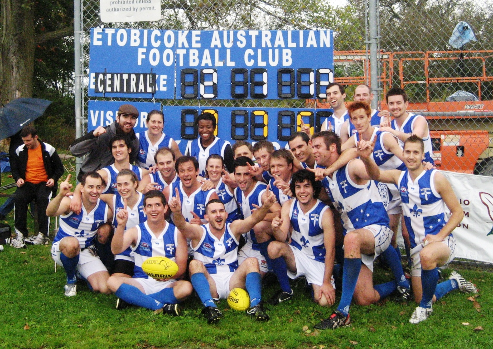 Photo of the Montreal based Quebec Saints Australian Rules football team moments after claiming the 2010 Ontario AFL DIvision 2 Premiership.